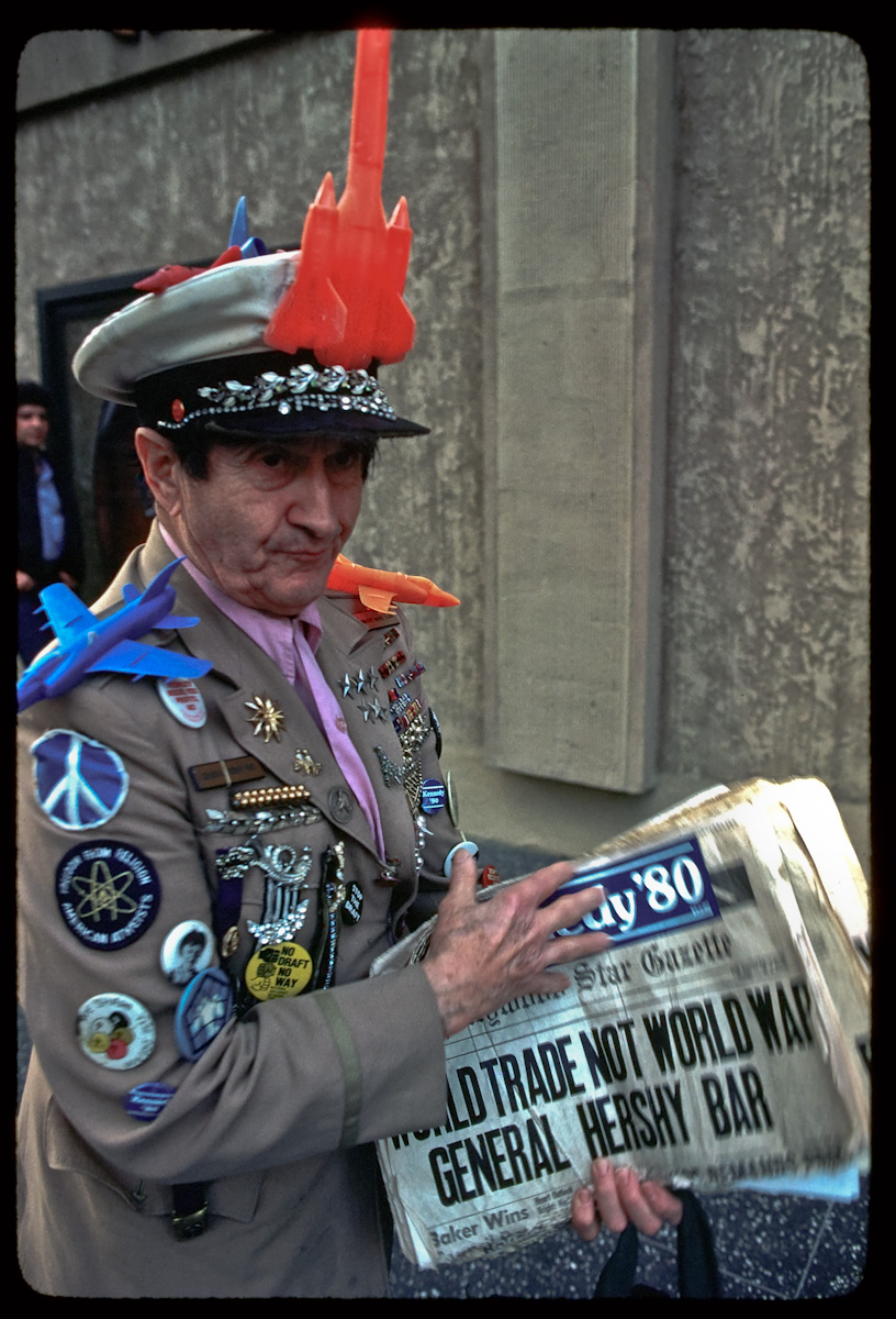 General Hershy Bar in his military get-up with plastic jet planes holds up a simulated newspaper with his name in the headlines while standing on Hollywood Boulevard, Hollywood CA 1979-8. Photo by Matt Sweeney